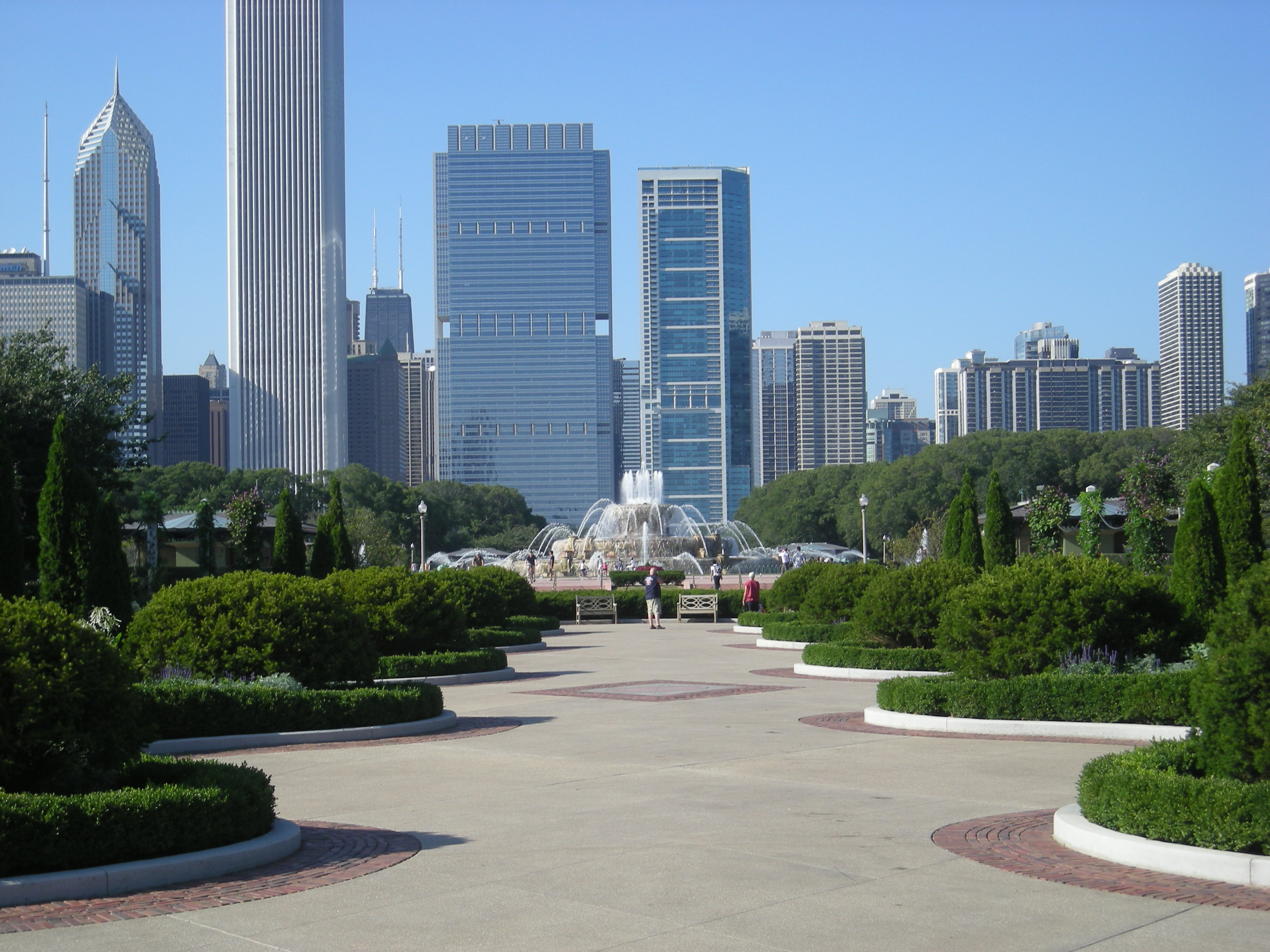 Buckingham Fountain in Grant Park in Chicago, Illinois (United States).